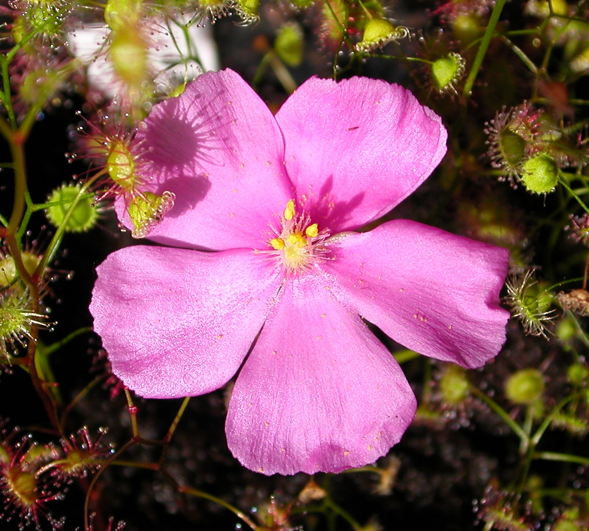 The author licensed this picture in a letter to the uploader as follows: "Ich lizensiere die Bilder [..] unter der GNU-FDL." (Translation: "I license the pictures [..] as GNU-FDL.") Flower of Drosera menziesii